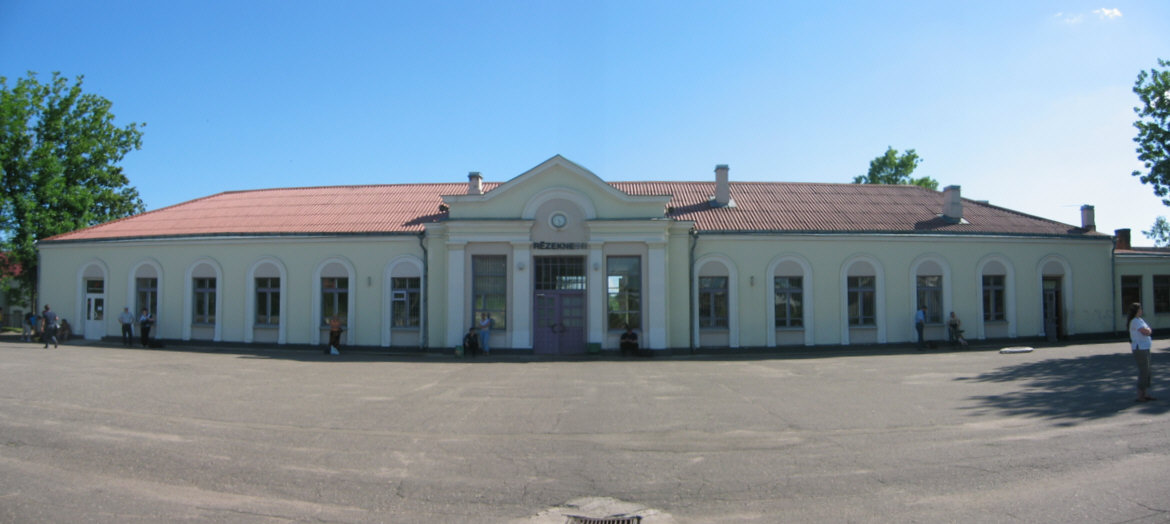 Rēzekne II train station. (This is a composite of two pictures. Camera: Canon Powershot S45)